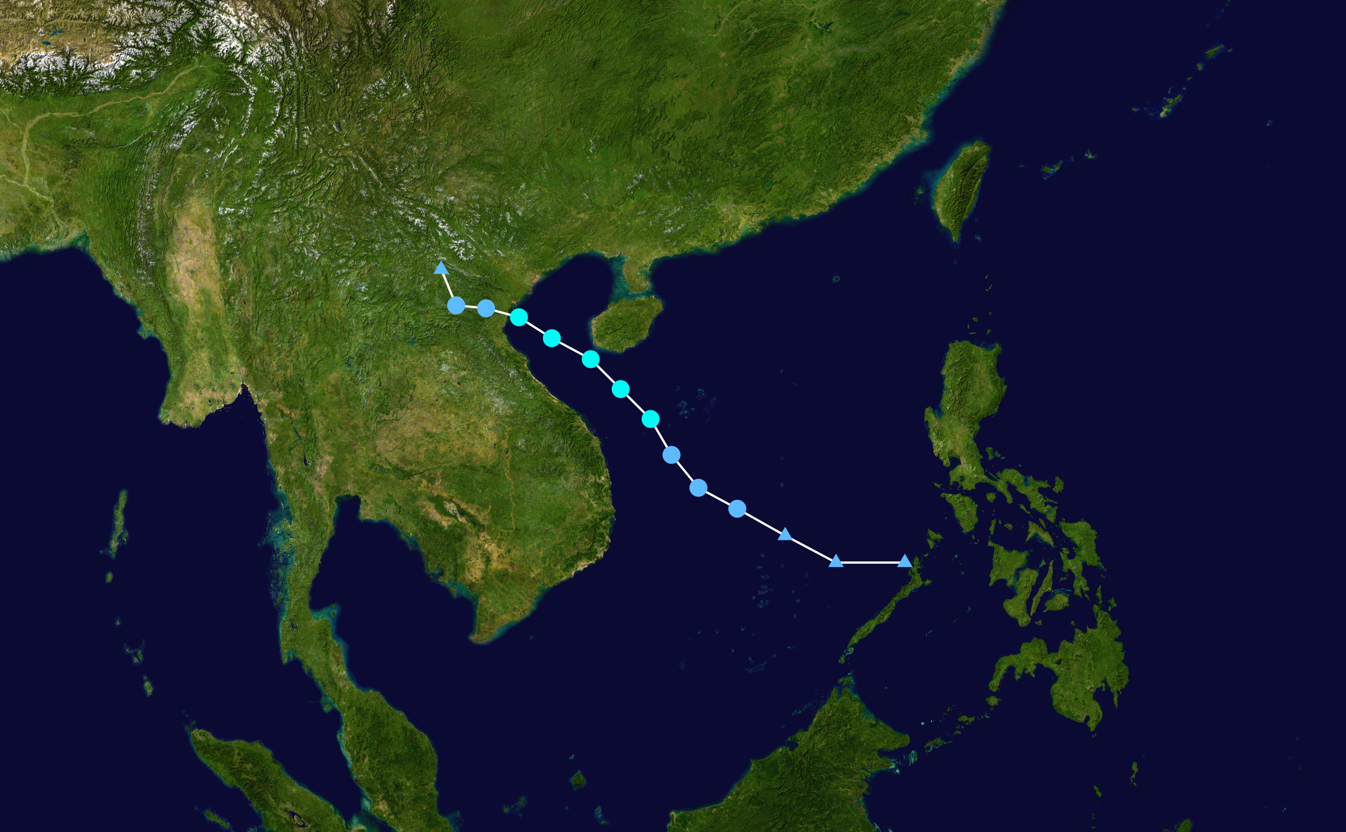 Track map of Tropical Storm Mangkhut of the 2013 Pacific typhoon season. The points show the location of the storm at 6-hour intervals. The colour represents the storm's maximum sustained wind speeds as classified in the Saffir–Simpson scale (see below), and the shape of the data points represent the nature of the storm, according to the legend below. Saffir–Simpson scale Tropical depression≤38 mph≤62 km/h Category 3111–129 mph178–208 km/h Tropical storm39–73 mph63–118 km/h Category 4130–156 mph209–251 km/h Category 174–95 mph119–153 km/h Category 5≥157 mph≥252 km/h Category 296–110 mph154–177 km/h Unknown Storm type Tropical cyclone Subtropical cyclone Extratropical cyclone / Remnant low / Tropical disturbance / Monsoon depression